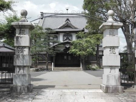 The Front Gate, Dai Nippon Hotokusha Headquarters, is located in Kakegawa City, Shizuoka Prefecture. It was built on 1909. (This image is available from the website of the Dai Nippon Hotokusha. This website says "Creative Commonsの表示（CC BY）として公開します".)